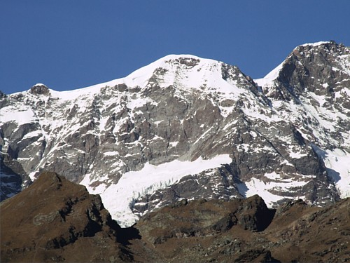 Punta Parrot (Parrotspitze) (4432 m) seen from Alagna Valsesia Picture taken and edited by user Idefix November 4, 2006